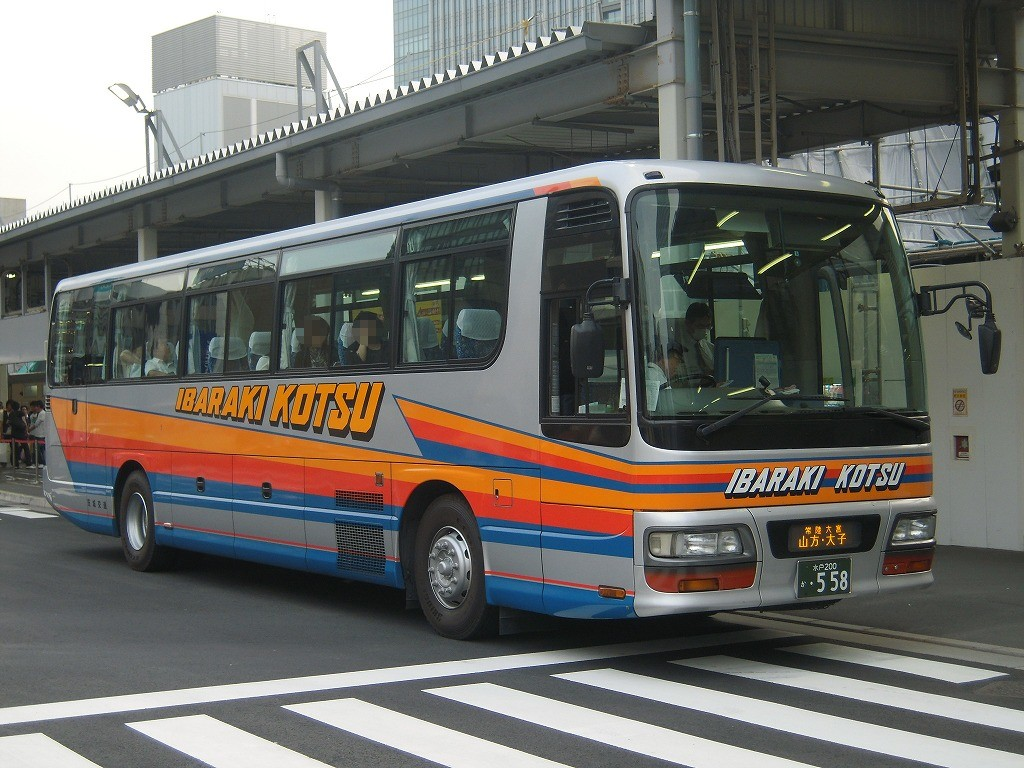 Ibaraki kotsu Isuzu Galahighwaybus Tokyo-HitachiDaigo(Ibaraki,Japan)